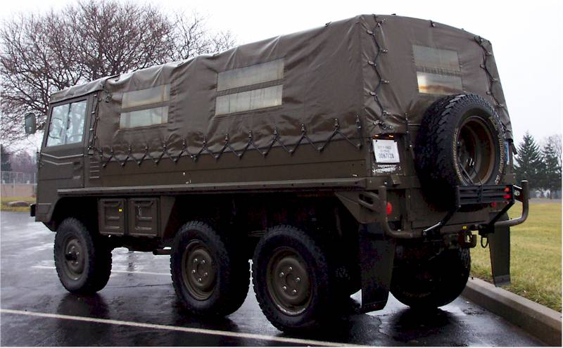 Rich Weinkauf